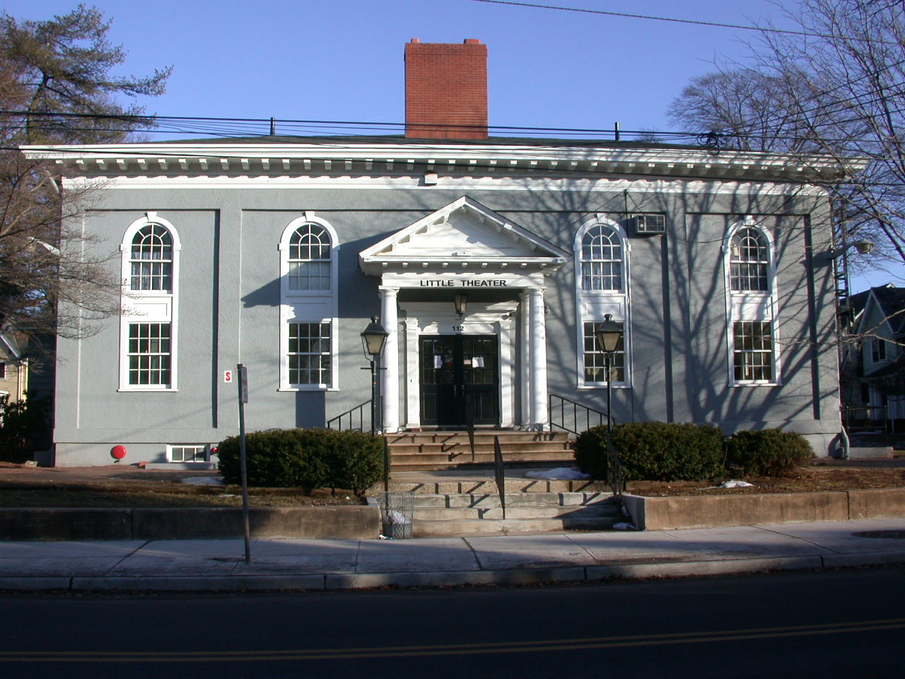 Little Theater, Douglass Campus, New Brunswick, NJ